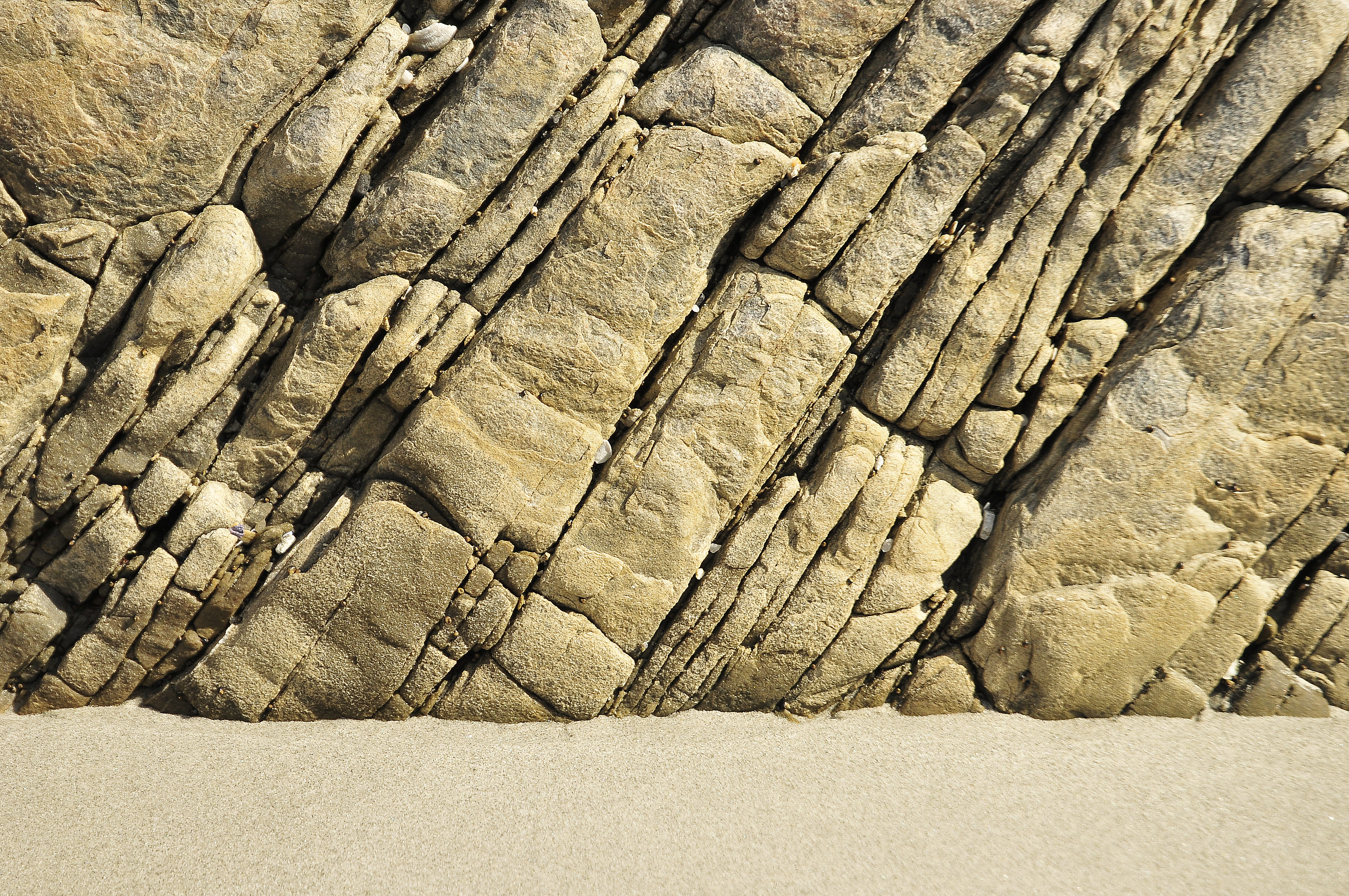 Dipping strata on a beach. Port Nolloth, Northern Cape, South Africa